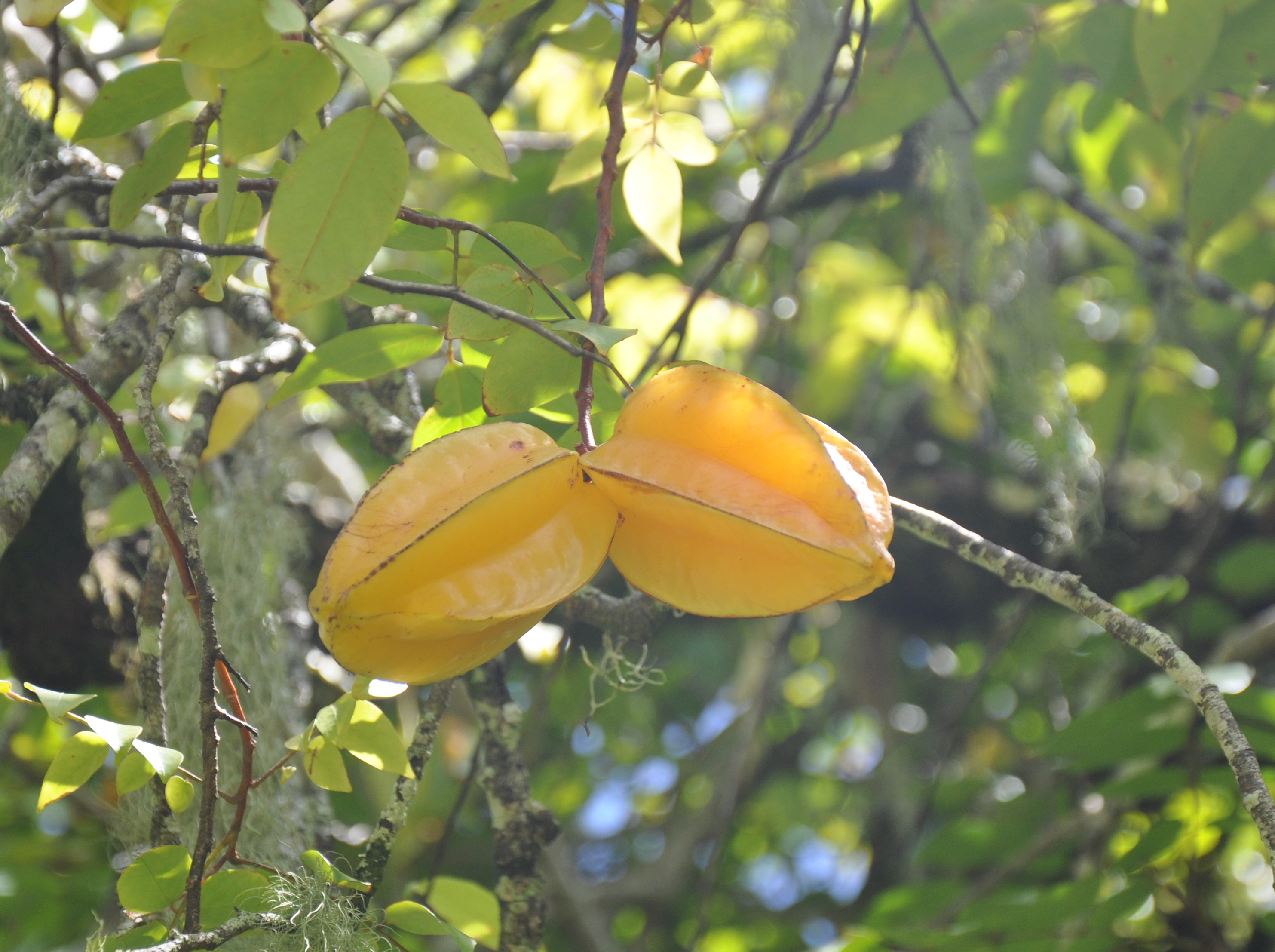 Carambole à Tahiti